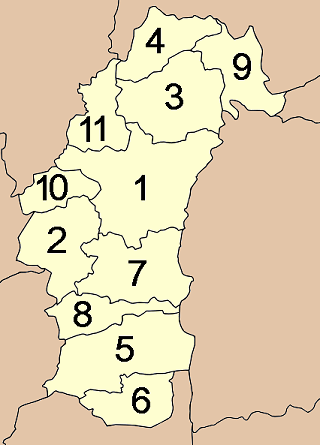 Map of the province Phetchabun with the districts (Amphoe) numbered. Mueang Phetchabun (อำเภอเมืองเพชรบูรณ์) Chon Daen (อำเภอชนแดน) Lom Sak (อำเภอหล่มสัก) Lom Kao (อำเภอหล่มเก่า) Wichian Buri (อำเภอวิเชียรบุรี) Si Thep (อำเภอศรีเทพ) Nong Phai (อำเภอหนองไผ่) Bueng Sam Phan (อำเภอบึงสามพัน) Nam Nao (อำเภอน้ำหนาว) Wang Pong (อำเภอวังโป่ง) Khao Kho (อำเภอเขาค้อ)